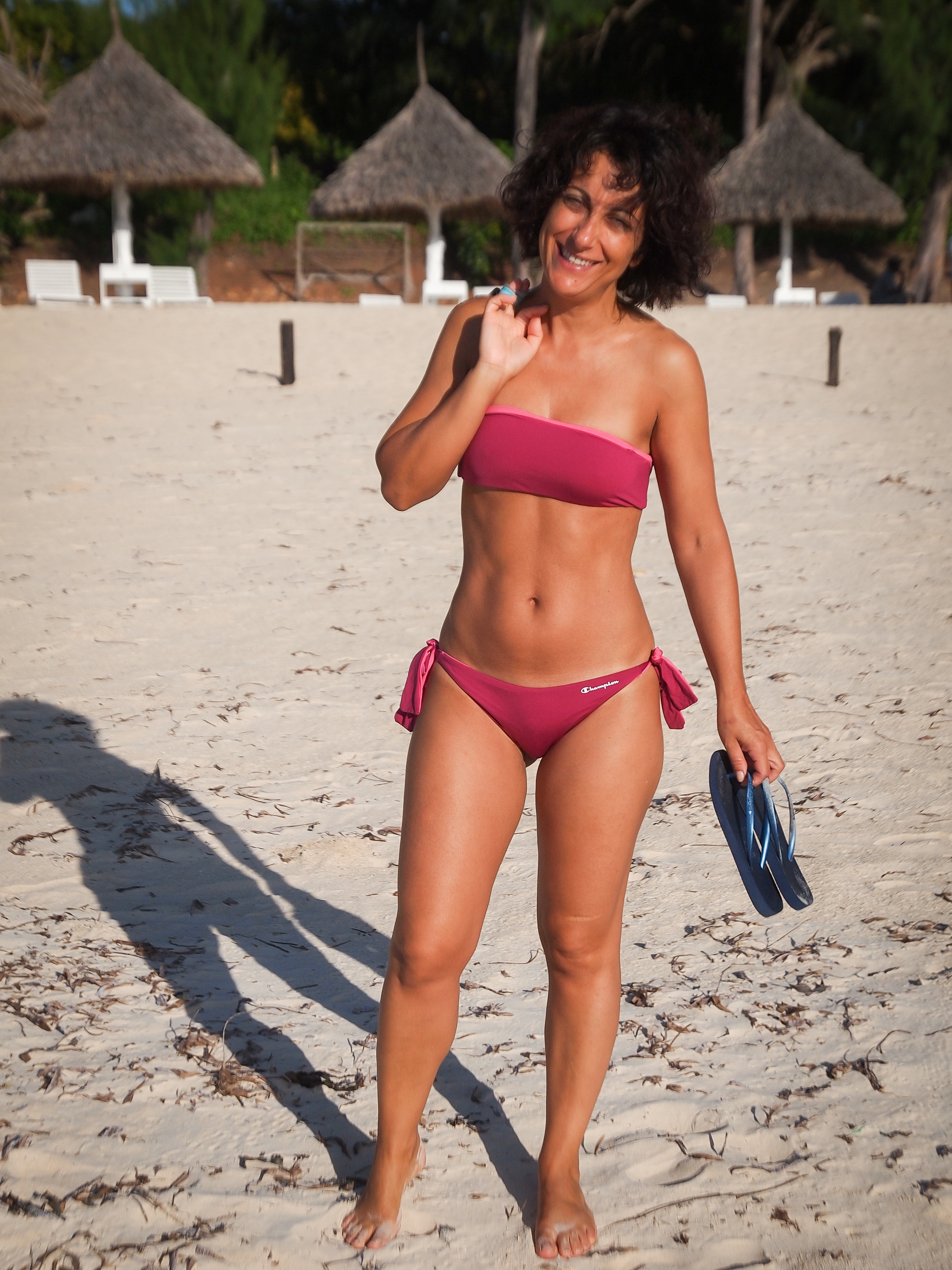 A female Tourist in Kenya, August 2012